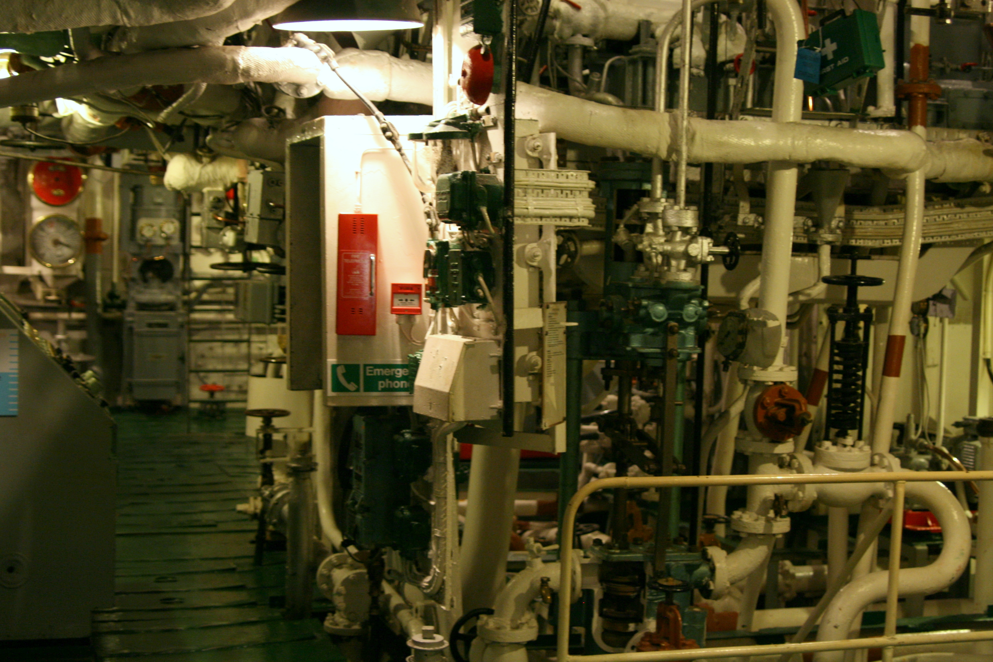 Bottom floor of the boiler room on HMS Belfast